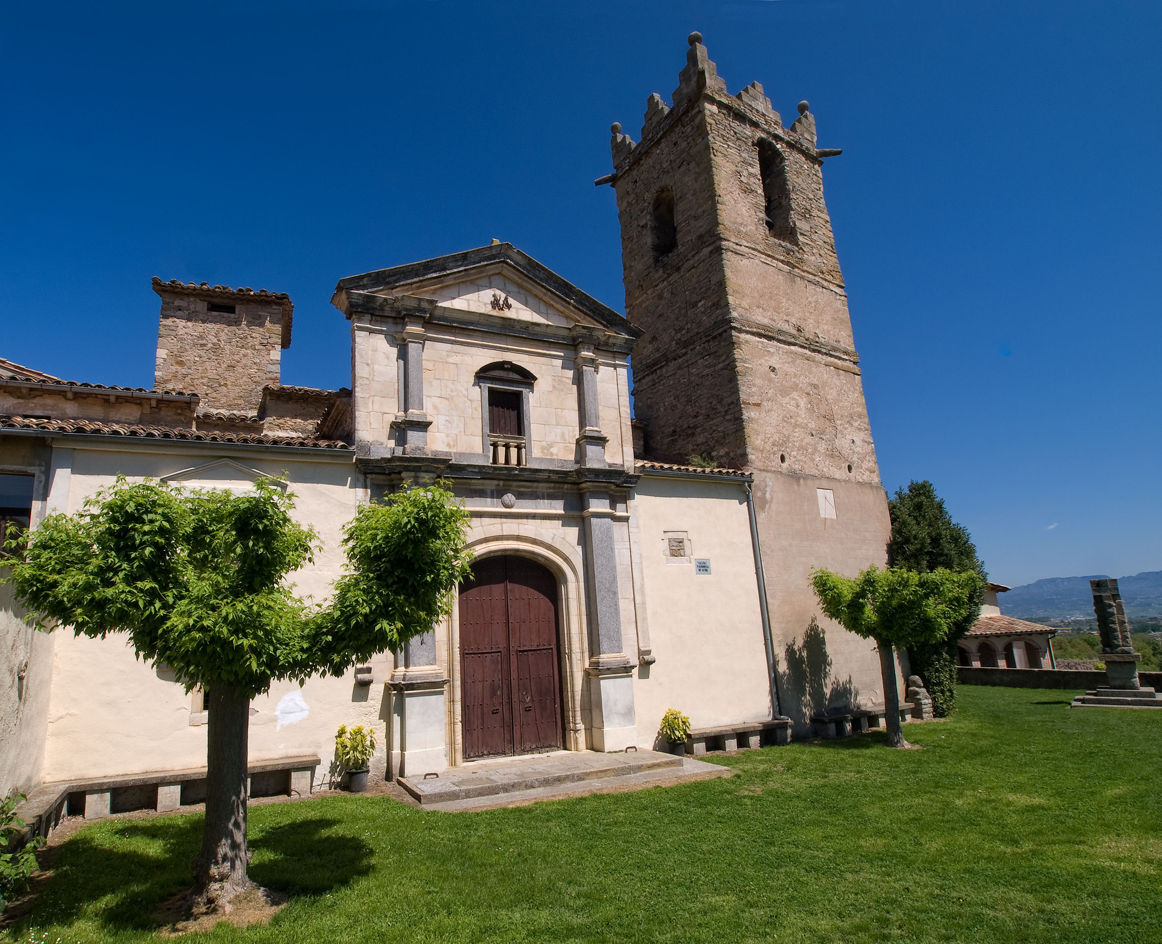 Sant Andreu church of Gurb (Catalonia, Spain)